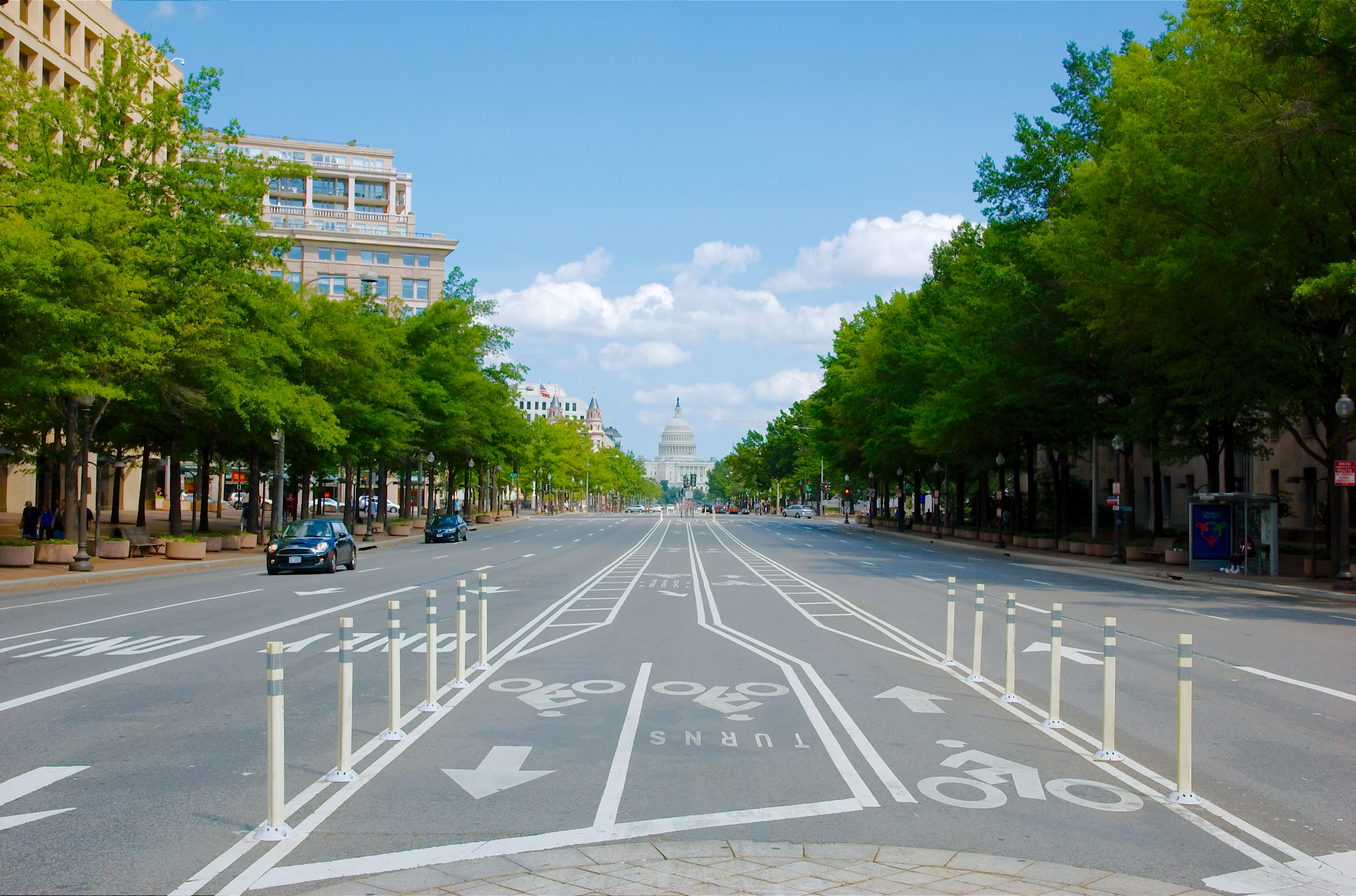 Bike lanes at Pennsylvania and 10th st NW, looking toward the U.S. Capitol.